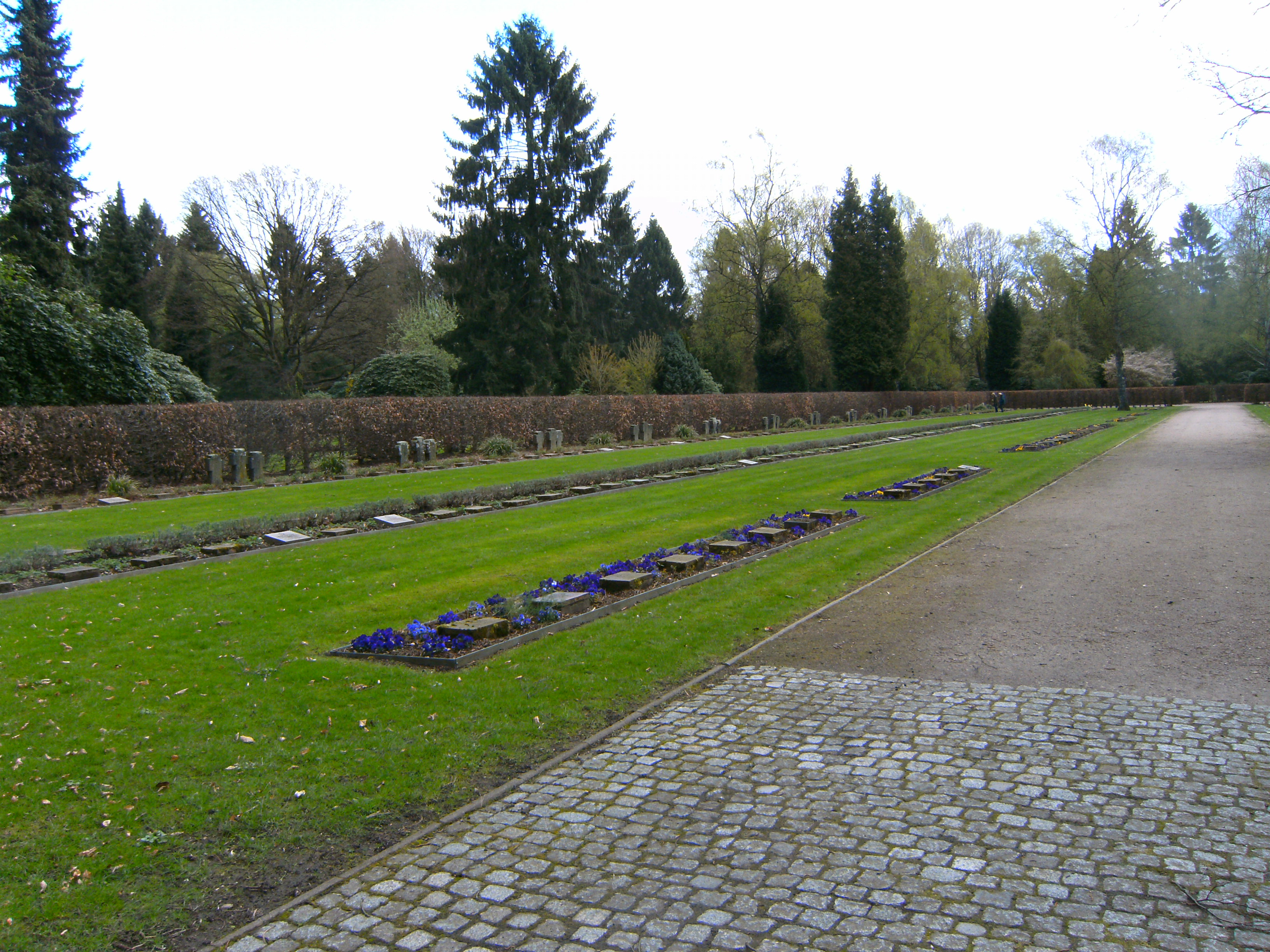 Deutsche Kriegsgräberstätte Hamburg-Ohlsdorf (German military cemetery). Area: Graves from November 1944 on.